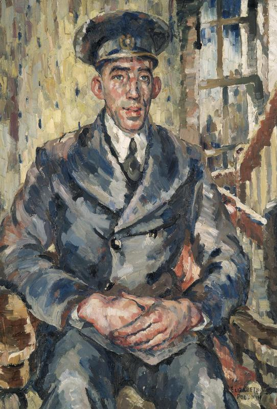 A seated three-quarters length portrait of a naval officer in a blue uniform wearing a cap.